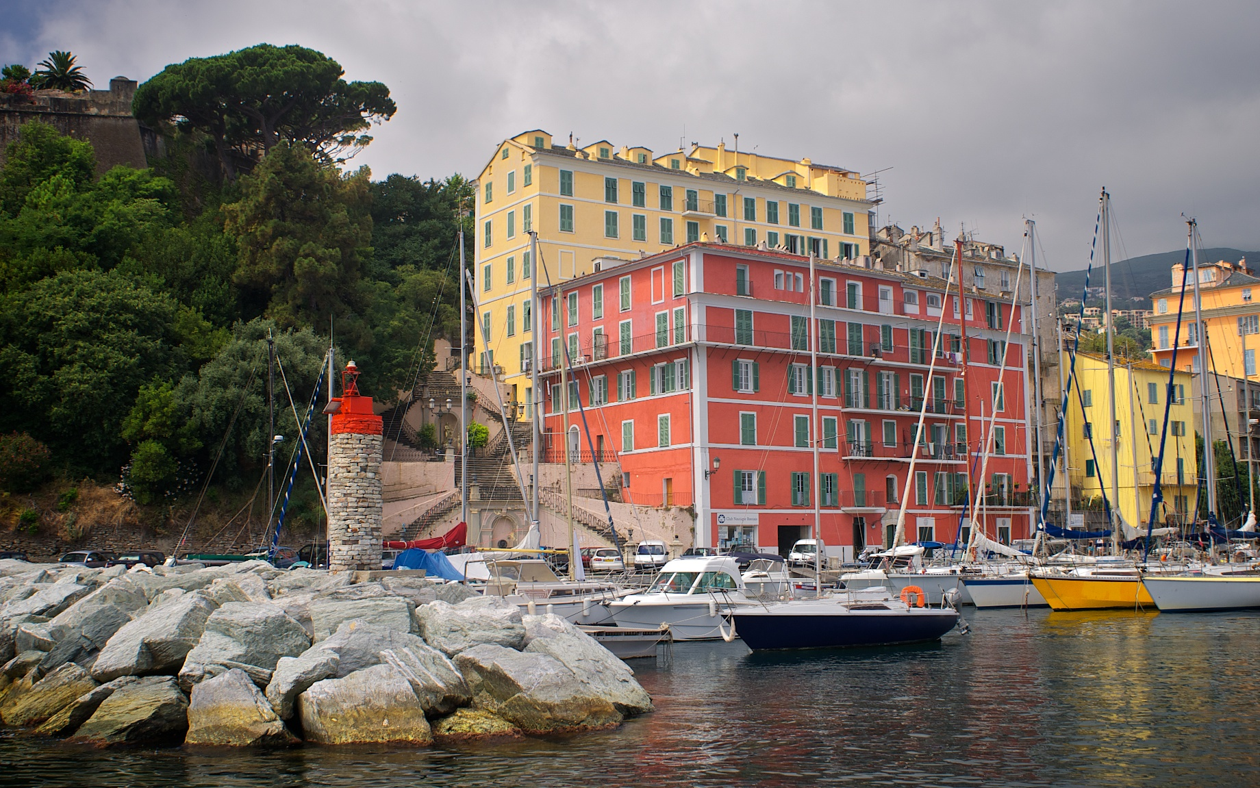 Colored buildings near the old harbour of Bastia